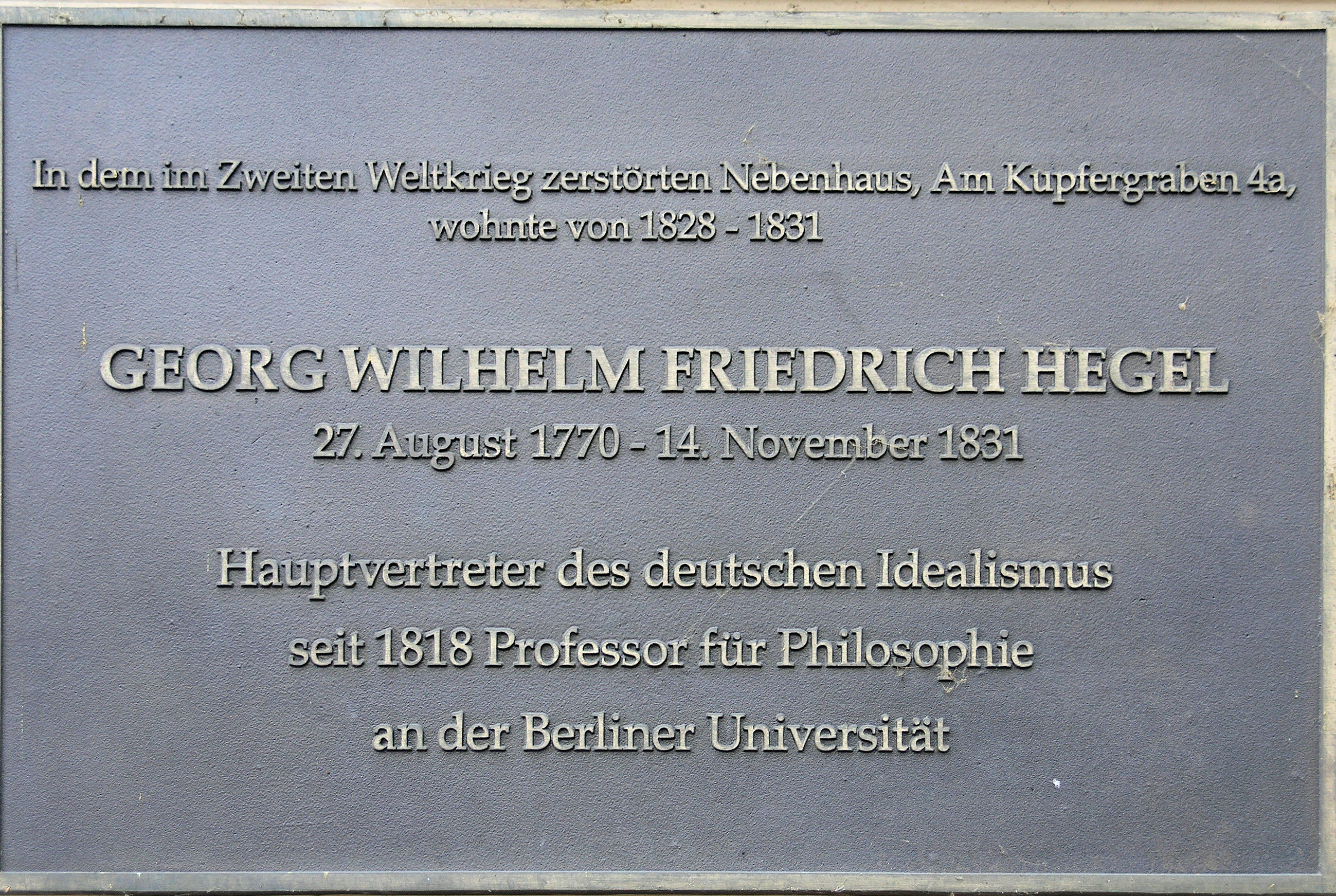 Memorial plaque, Georg Wilhelm Friedrich Hegel, Am Kupfergraben (4a), Berlin-Mitte, Germany Koordinate:52°31′14.3″N 13°23′41.7″E / 52.520639°N 13.394917°E